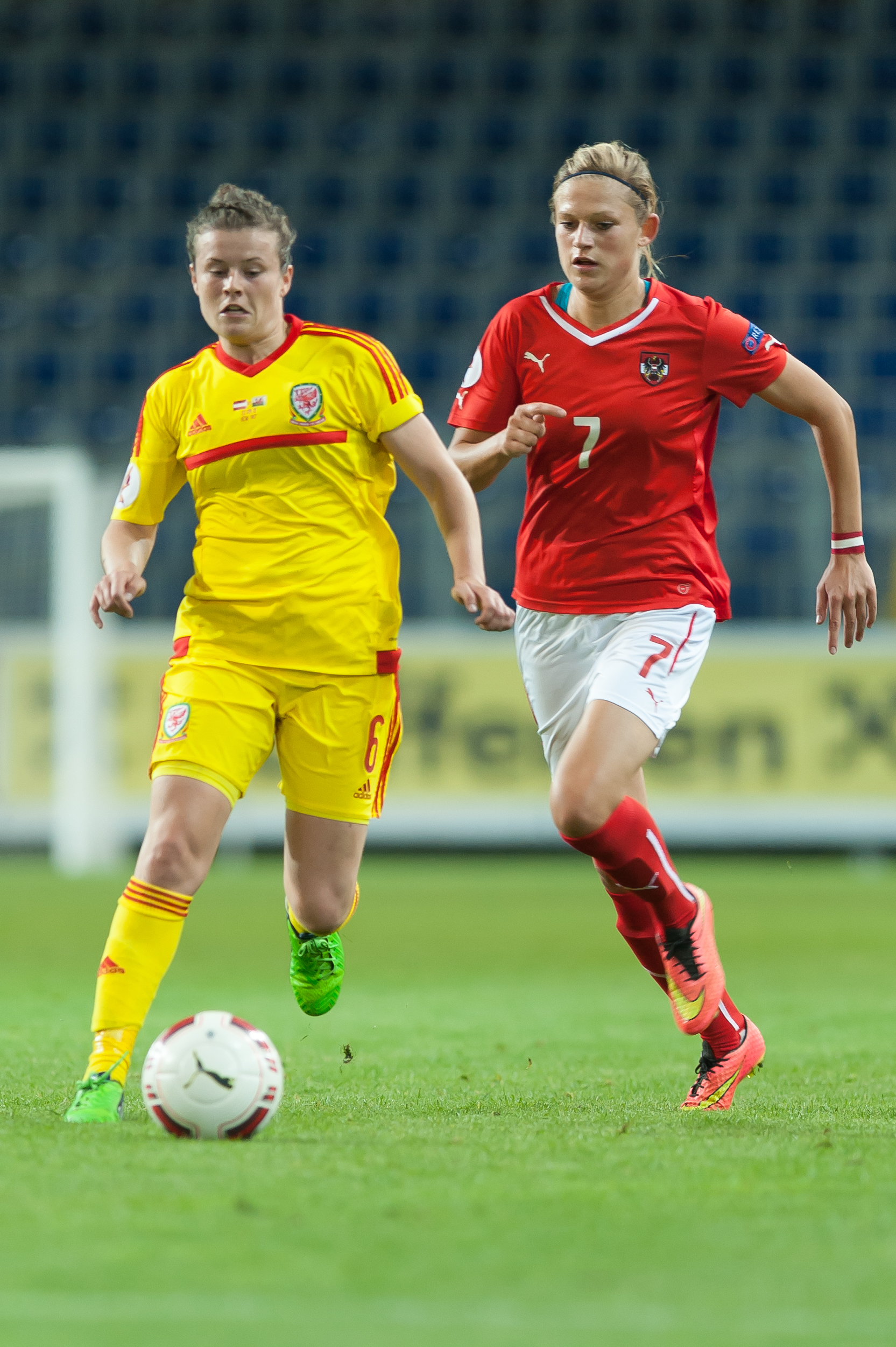 Women's Euro Qualification Austria vs. Wales, 2015-09-22, St. Pölten, Lower Austria